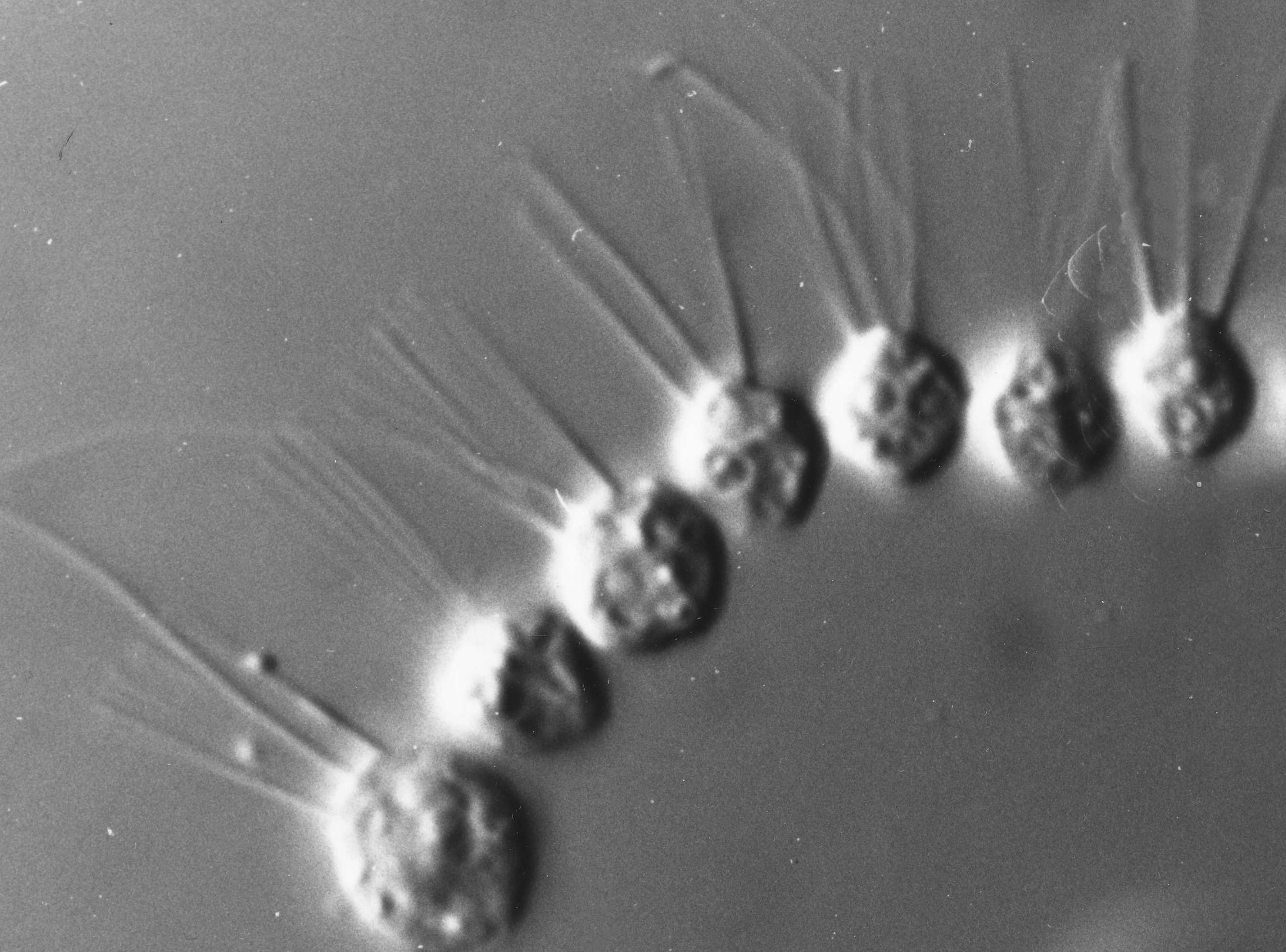 Desmarella moniliformis (DIC image)